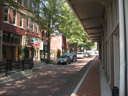 Downtown Paducah, Market House Theatre Market House Theatre